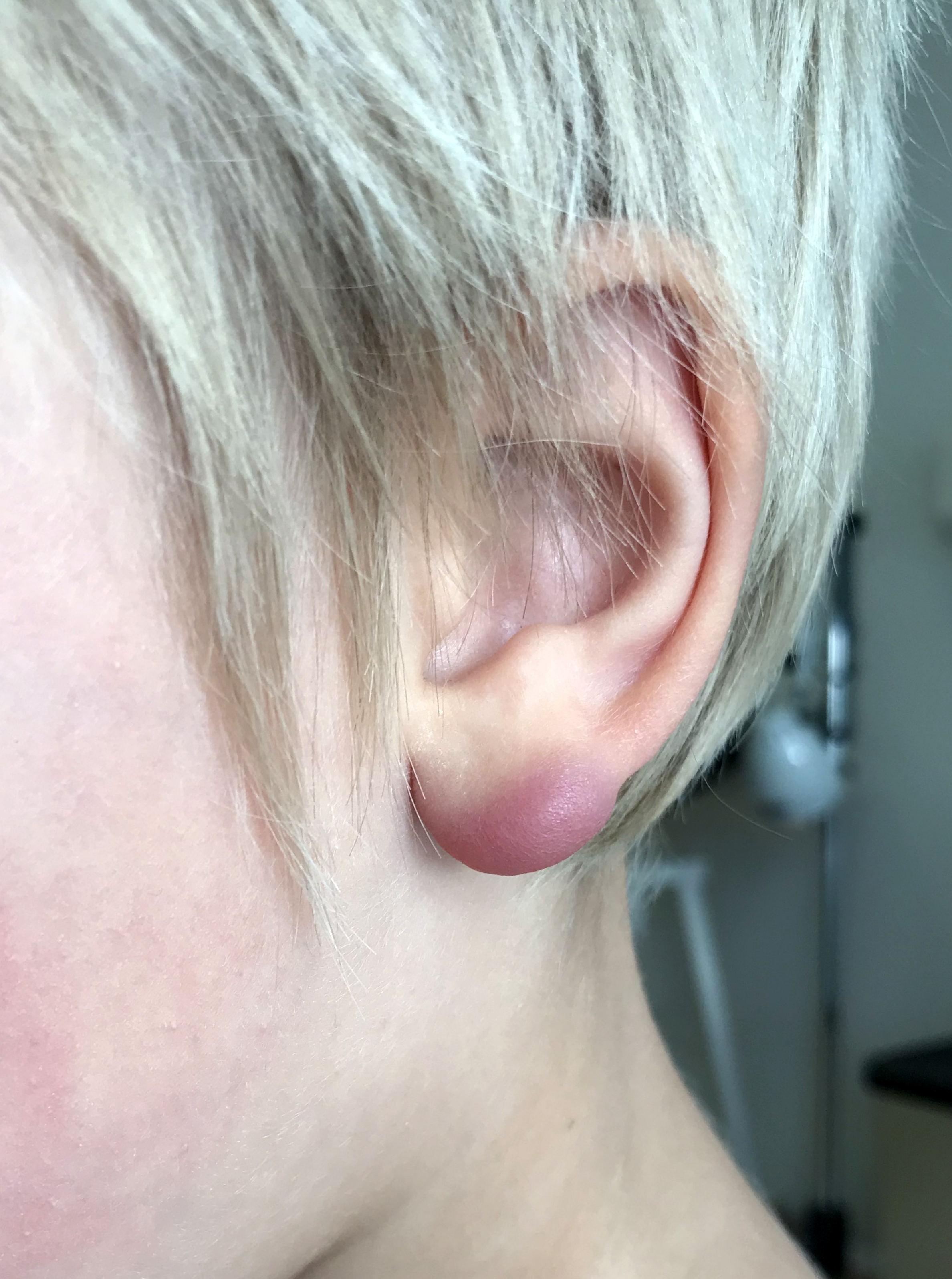 Borrelial lymphocytoma on 4 years old child's earlobe.